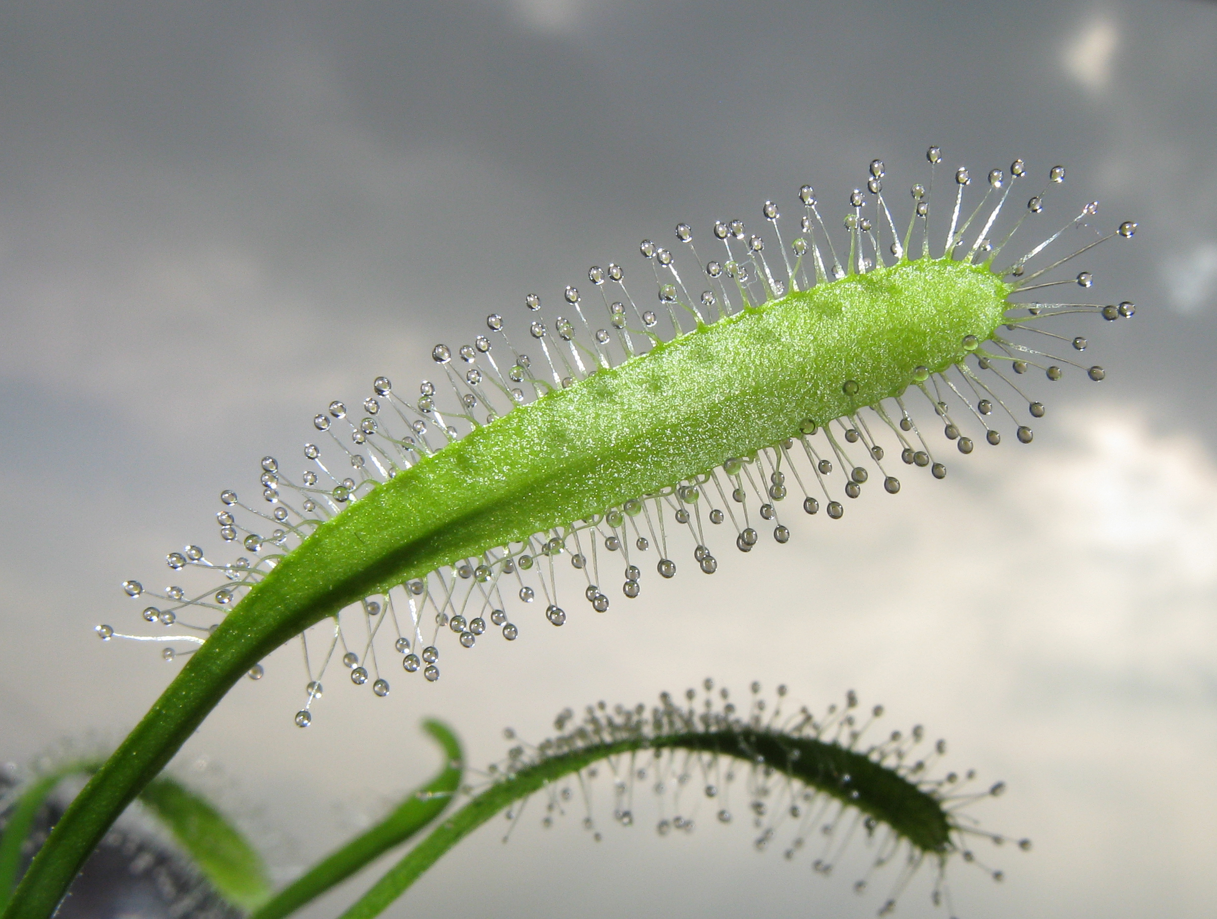 Leaf of Drosera capensis